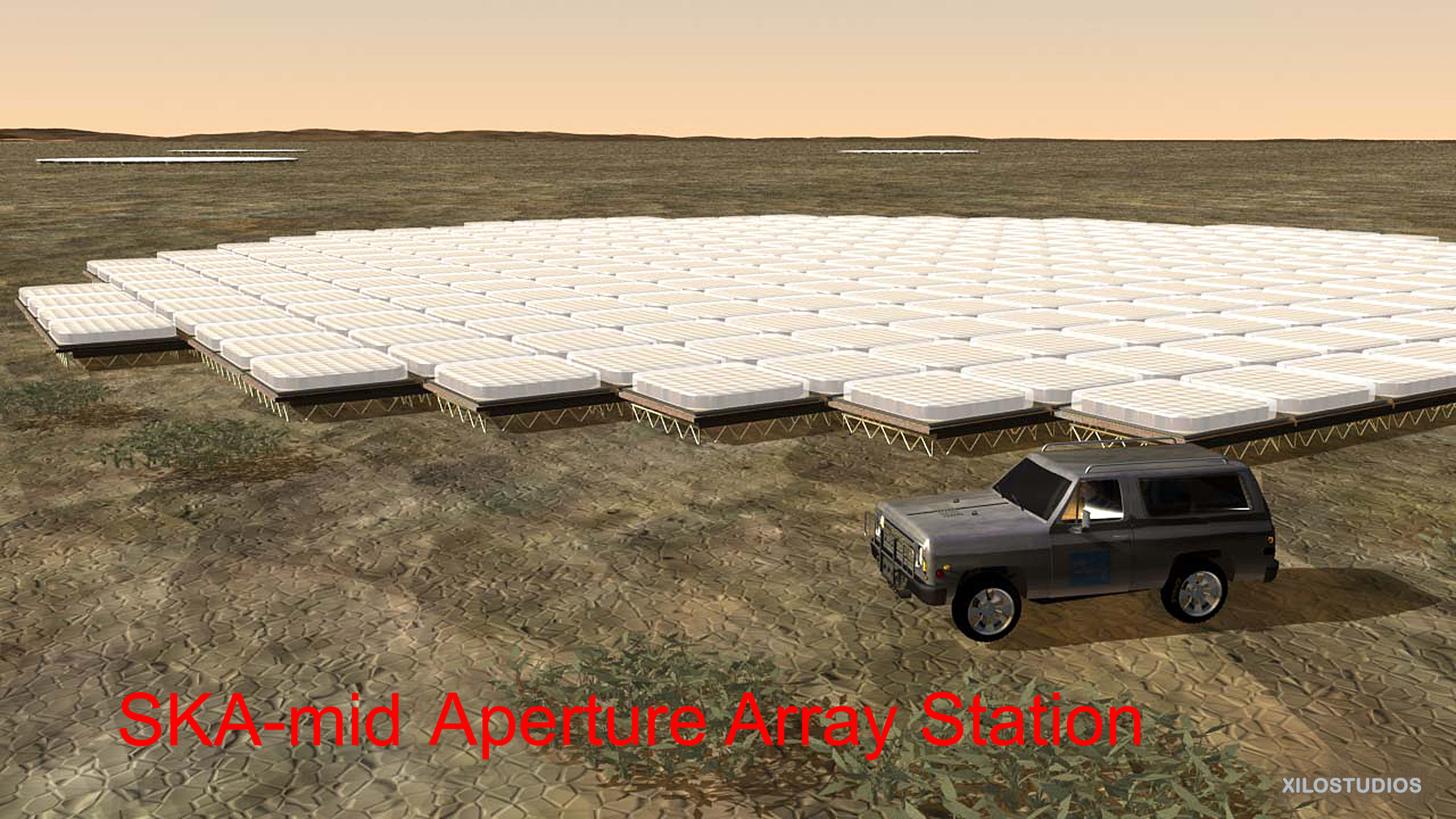 Artist's Impression of a 60 metre diameter SKA mid band aperture array station composed of 3 metre square tiles